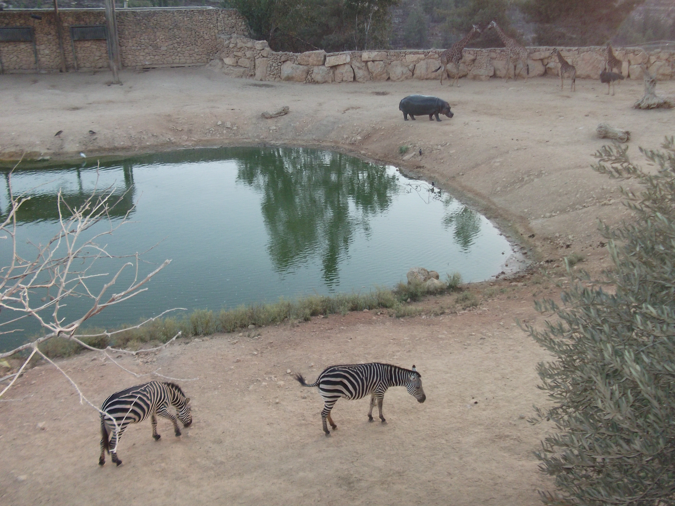 African Yard in Jerusalem Biblical Zoo